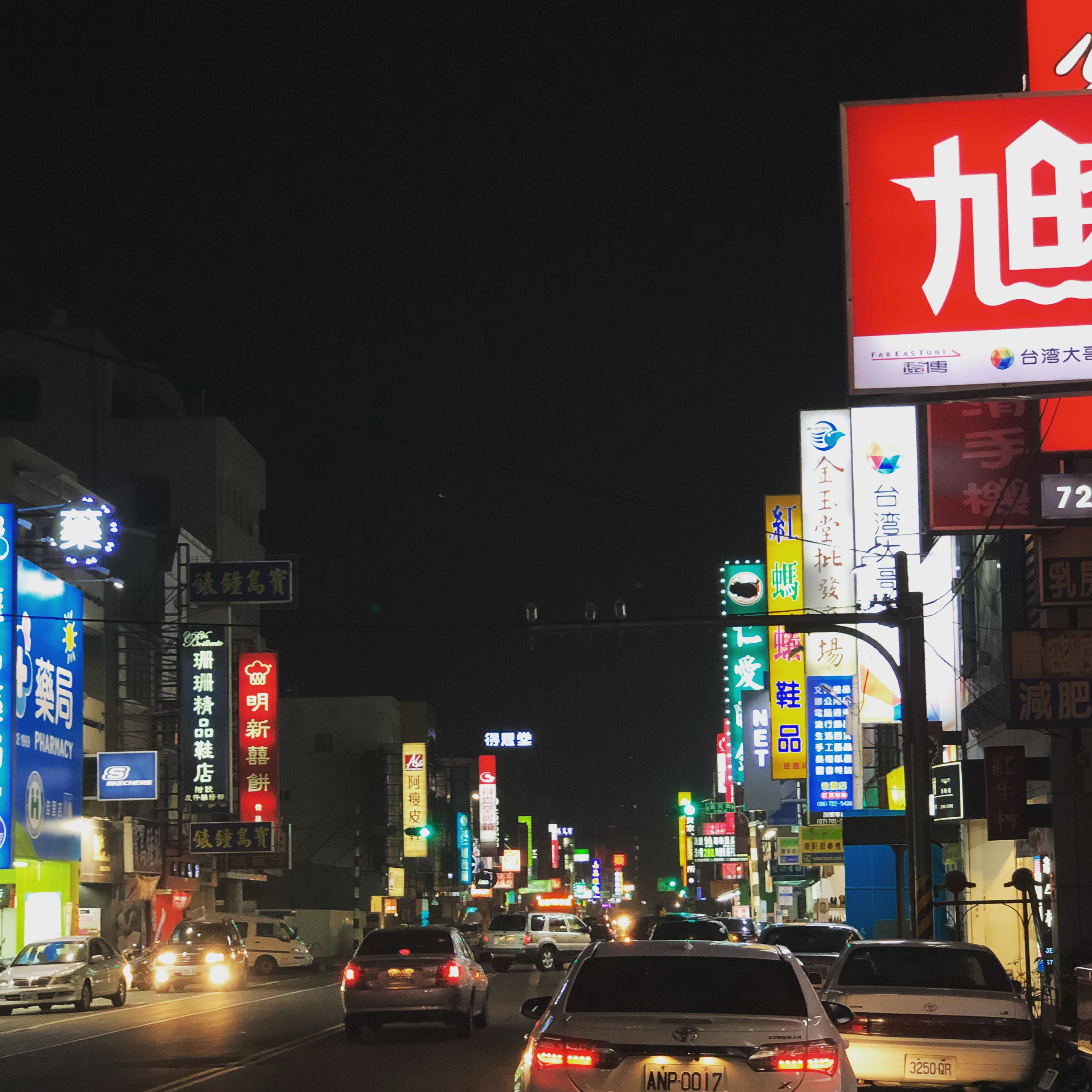 Jialy District is one of the area in